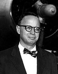 Arthur M. Schlesinger, Jr., American historian